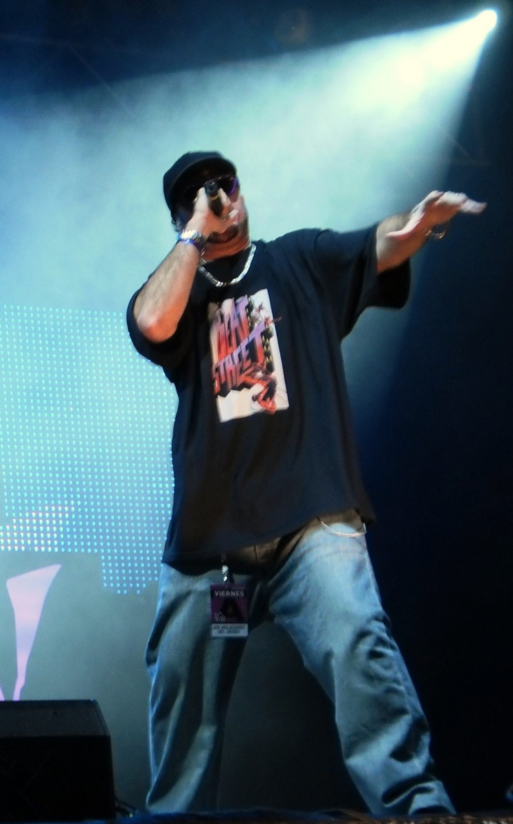 Hate, is a Spanish rapper.